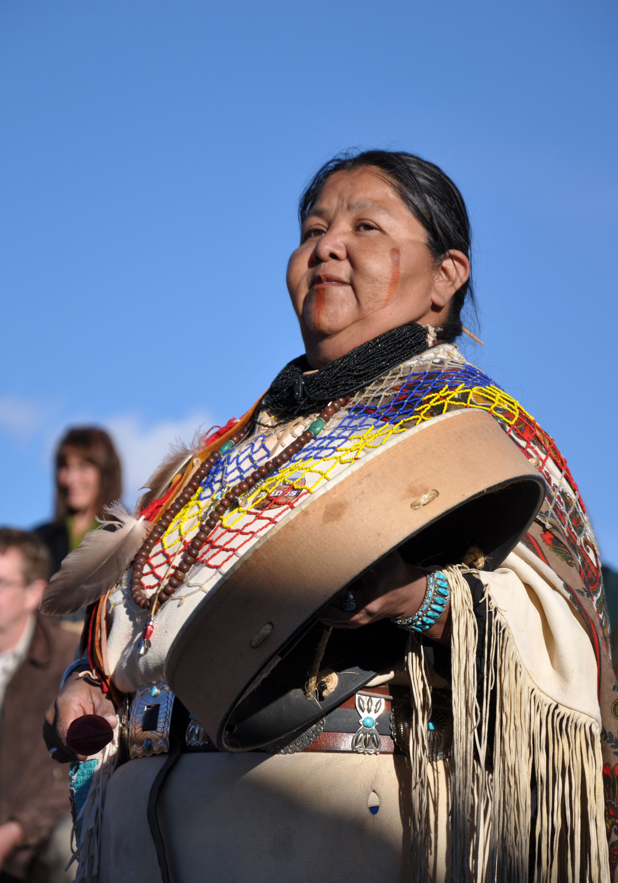 New Mather Point Amphitheater and Landmark Feature Dedication Ceremony Monday, October 25, 2010. . Diana Sue Uqualla, representing the Havasupai People. . . The Grand Canyon Association and Grand Canyon National Park dedicated a new rim-based amphitheater and landmark feature at Mather Point on Grand Canyon’s South Rim on Monday, October 25, 2010 starting at 3:30 p.m.. . The new amphitheater allows park visitors to view the Canyon’s famous vistas from a beautiful location, while seated on native limestone. The amphitheater’s setting, adjacent to the rim seats approximately 50 – 80 people providing space for ranger talks or viewing the Canyon’s sunrise and sunsets in a peaceful spot.. . The landmark feature, honoring the Native American Tribes affiliated with Grand Canyon National Park, is also created from native limestone. This feature has a plaza with a meeting area for visitors walking to and from Mather Point. Stone slabs in the construction include etchings inspired by stories with input gathered from these tribes. Diana Sue Uqualla, representing the Havasupai Tribe offered a blessing at the landmark feature.. . The Grand Canyon Association and Grand Canyon National Park are thankful to the Salt River Project and their partners; U. S. Bureau of Reclamation, Los Angeles Department of Water and Power, Arizona Public Service, NV Energy and Tucson Electric Power - owners of the Navajo Generating Station for providing the funding to help construct these two key elements at Mather Point near the park’s main visitor center – the landmark feature and Mather Point Amphitheater. These areas will become a central part of the visitor experience for the nearly 4.5 million people from around the world who visit Grand Canyon National Park each year.. . NPS Photo by Erin Whittaker.